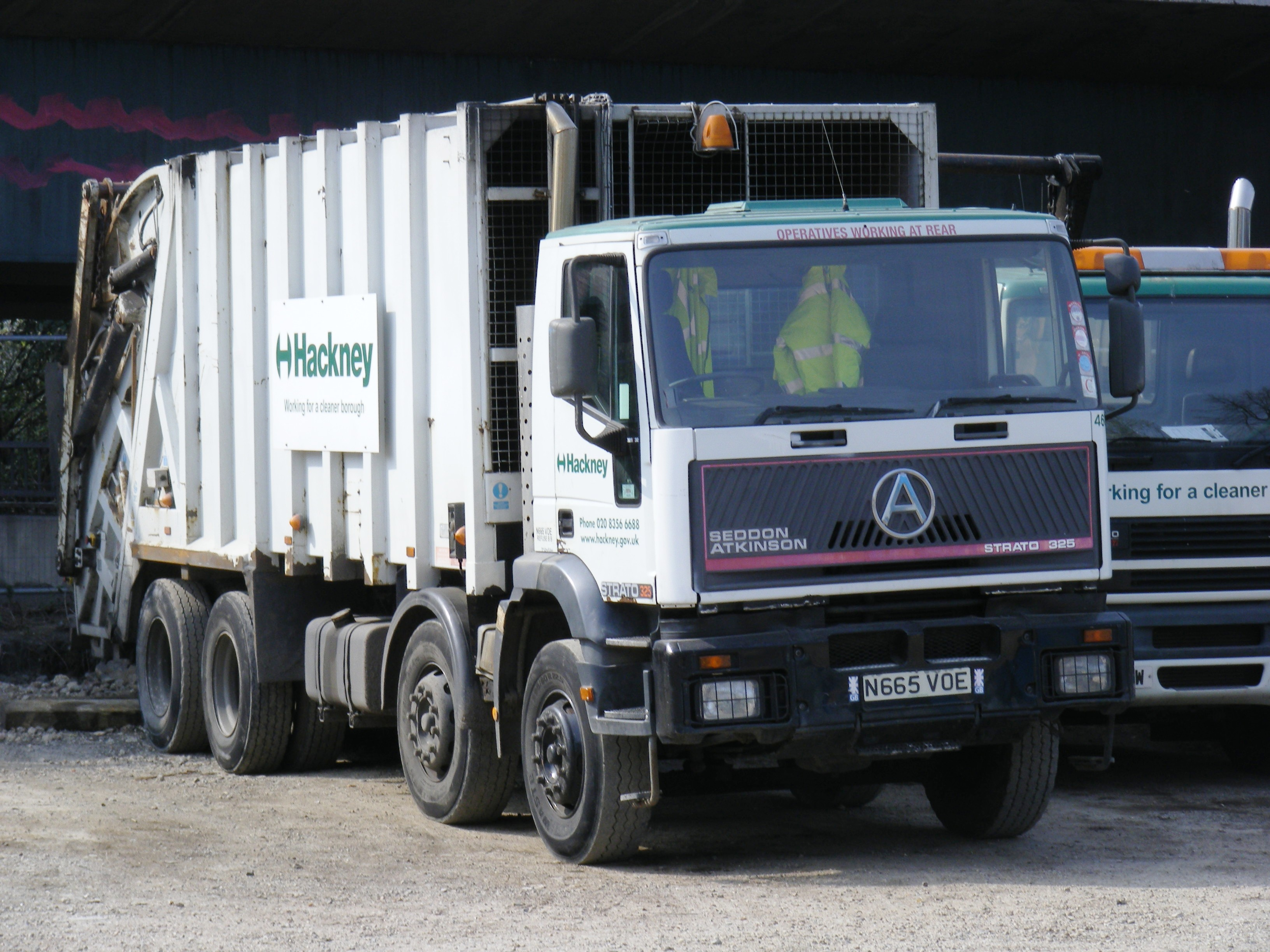 Hackney 1996 Seddon Atkinson Strato 32.325. 6 litre diesel engine.